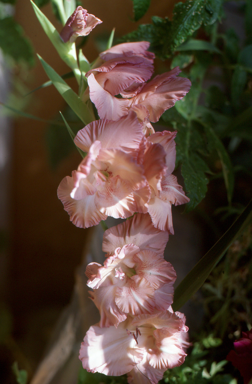 Gladiolus "Shokoladnitsa", breeder Yevdokimov